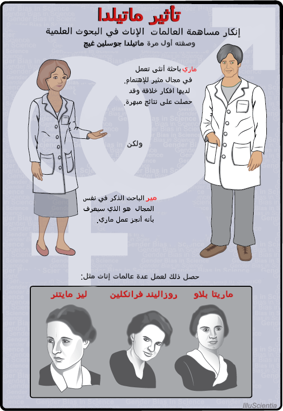 graphical summary of the Matilda effect concerning denial of contributions of women in science